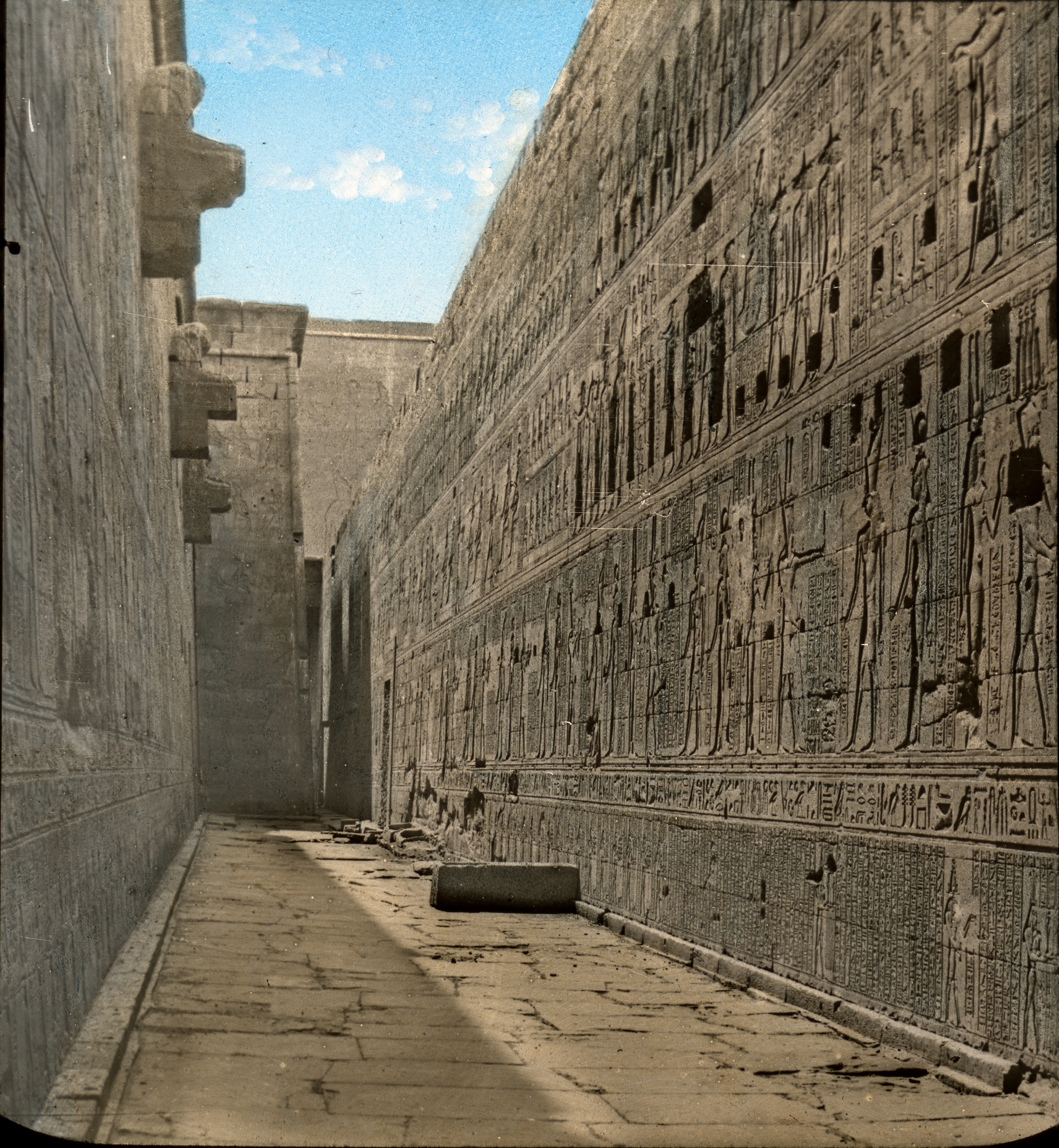 Lantern Slide Collection: Views, Objects: Egypt. Edfu [selected images]. View 01: Egypt - Edfu., n.d. Brooklyn Museum Archives (S10.08 Edfu, image 9884).